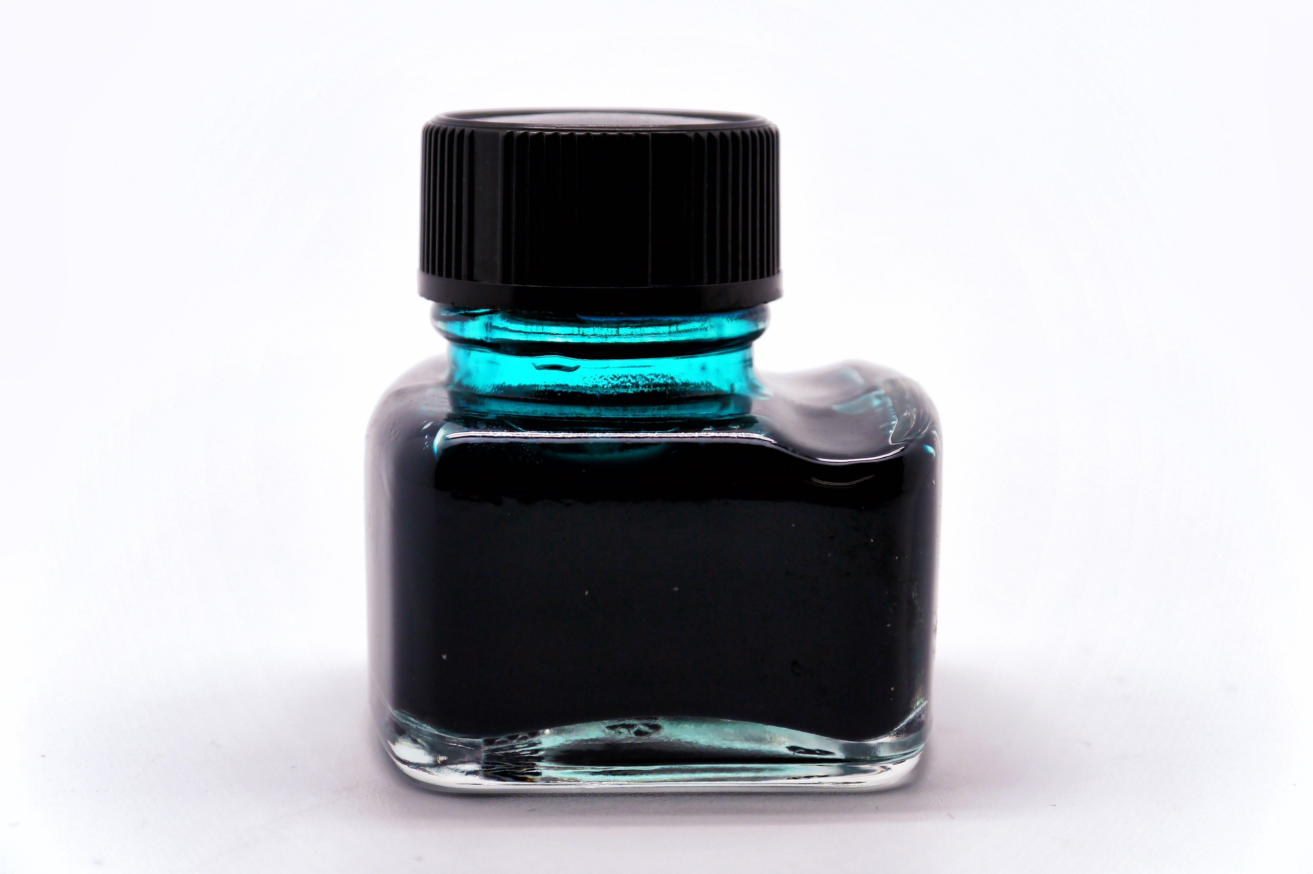 A bottle of green ink.